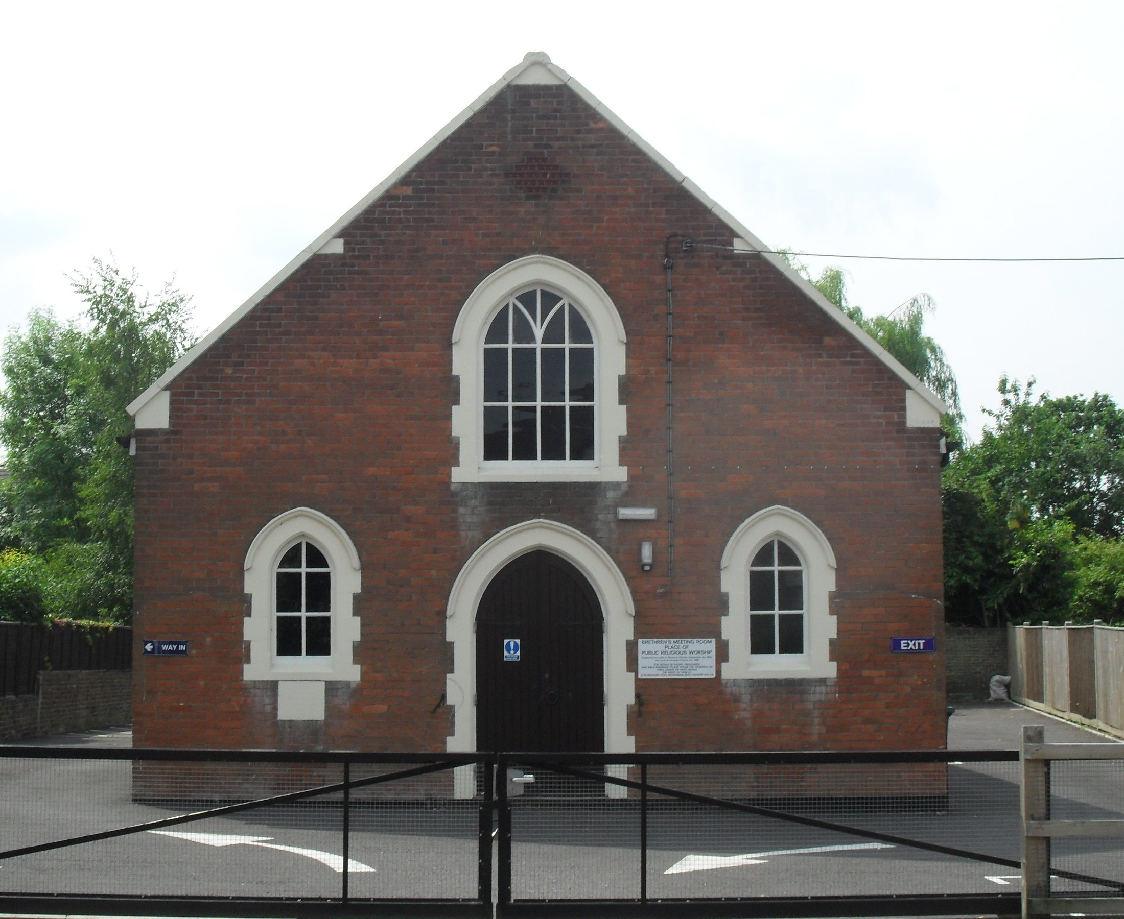 Broadbridge Heath Free Church, Broadbridge Heath, District of Horsham, West Sussex, England. A Plymouth Brethren chapel in Broadbridge Heath.